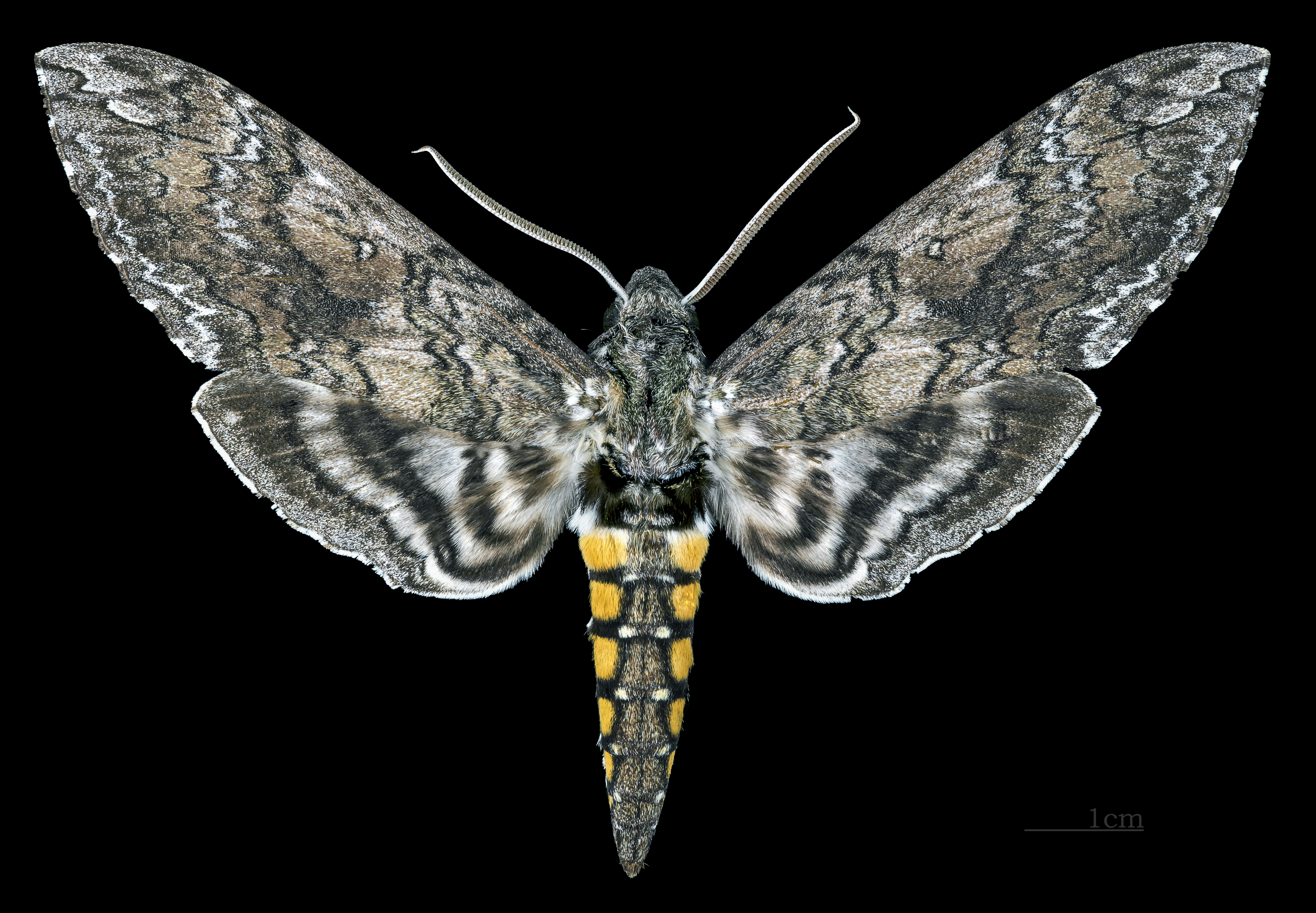 Manduca sexta - Dorsal side Collection of the Mathematician Laurent Schwartz